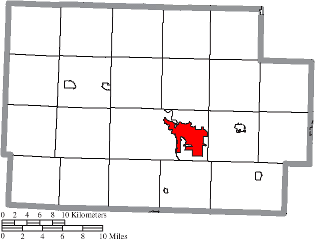 Map of the municipal and township boundaries of Coshocton County, Ohio, United States, as of the 2000 census, with the location of the city of Coshocton highlighted. Township borders are shown only in unincorporated areas in order to differentiate incorporated and unincorporated areas more clearly.